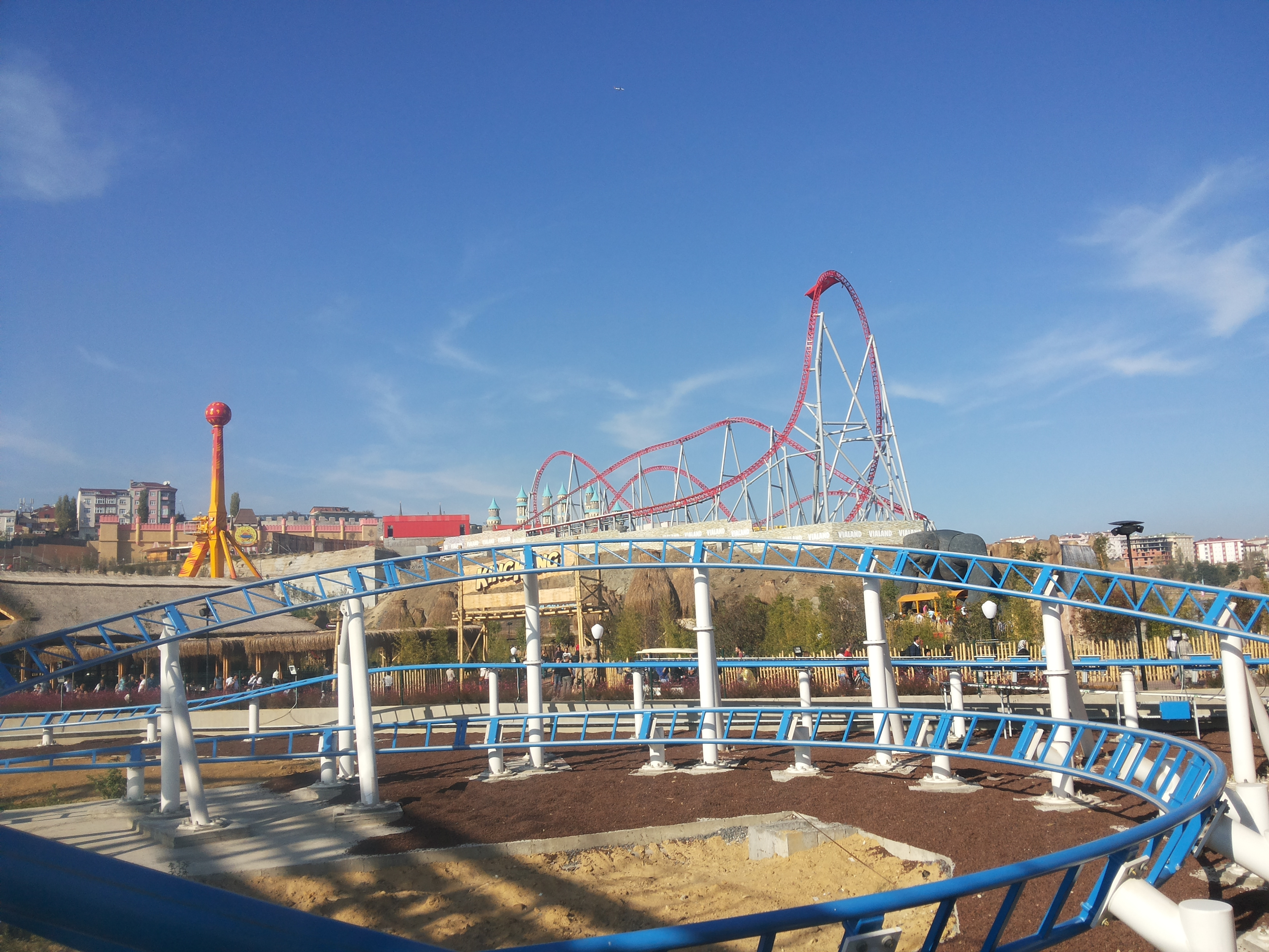 Vialand Theme Park, Istanbul, Turkey.